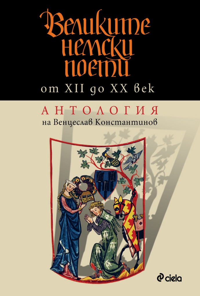 front cover of the book "The Great German Poets from the 12th to the 20th Century" by ventseslav konstantinov, 2012